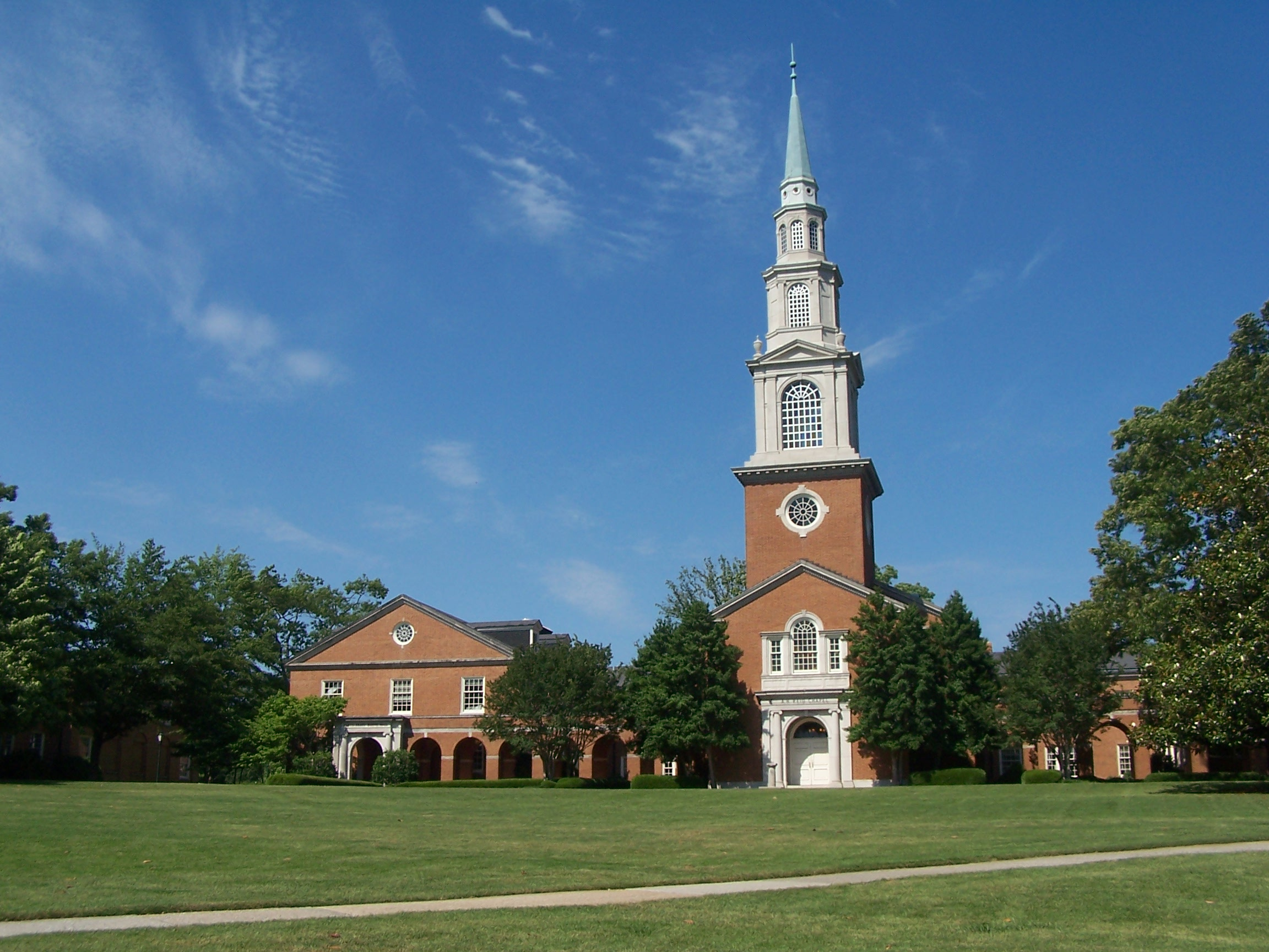 Author: BRM Source: Digital Picture